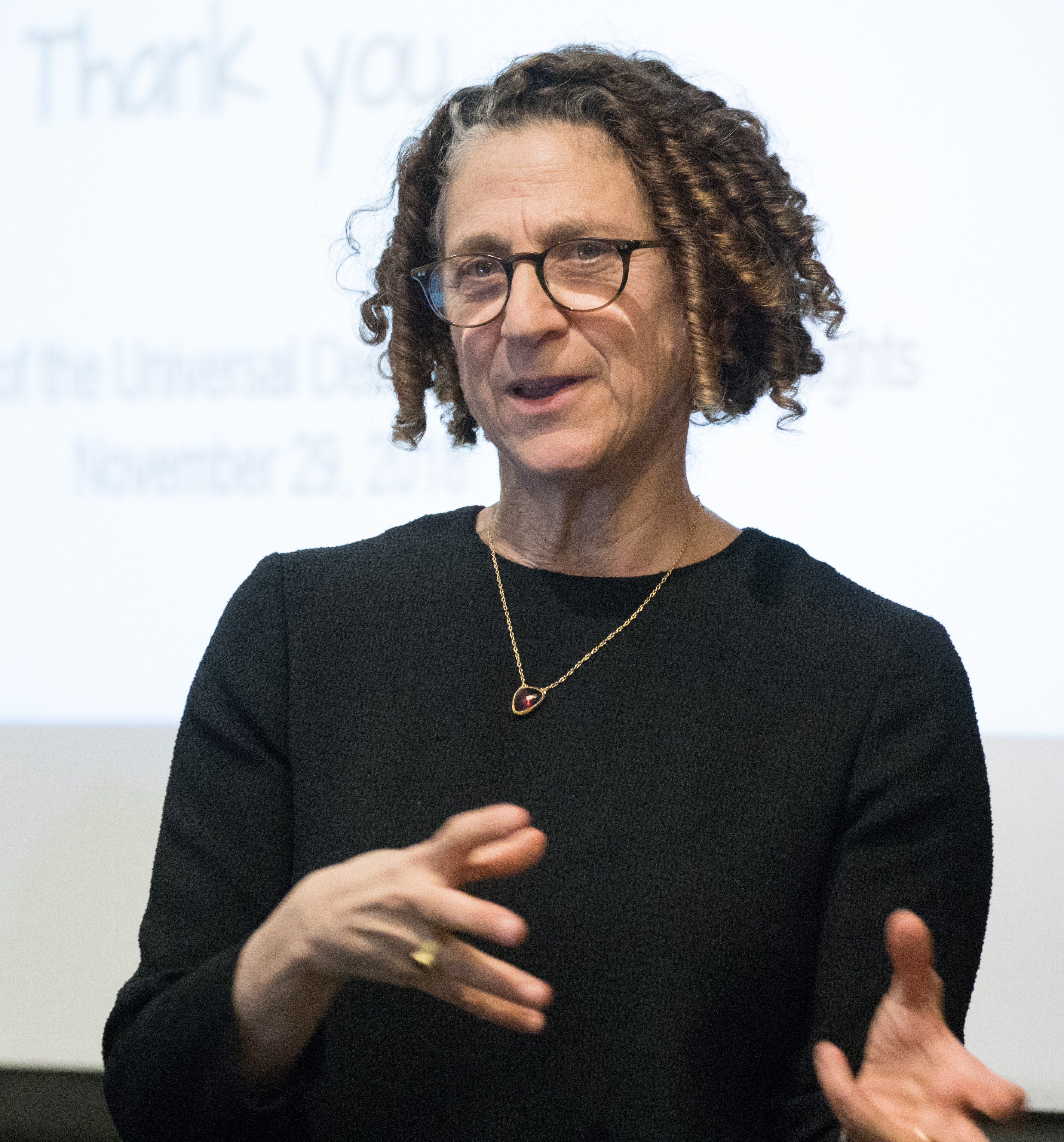 Cynthia Dwork, the Gordon McKay Professor of Computer Science at the John A. Paulson School of Engineering and Applied Sciences at Harvard, the Radcliffe Alumnae Professor at the Radcliffe Institute for Advanced Study, and an Affiliated Faculty Member at Harvard Law School, speaks on "Skewed or Rescued?: The Emerging Theory of Algorithmic Fairness", at Harvard Kennedy School Taubman Building, Nov. 29, 2018